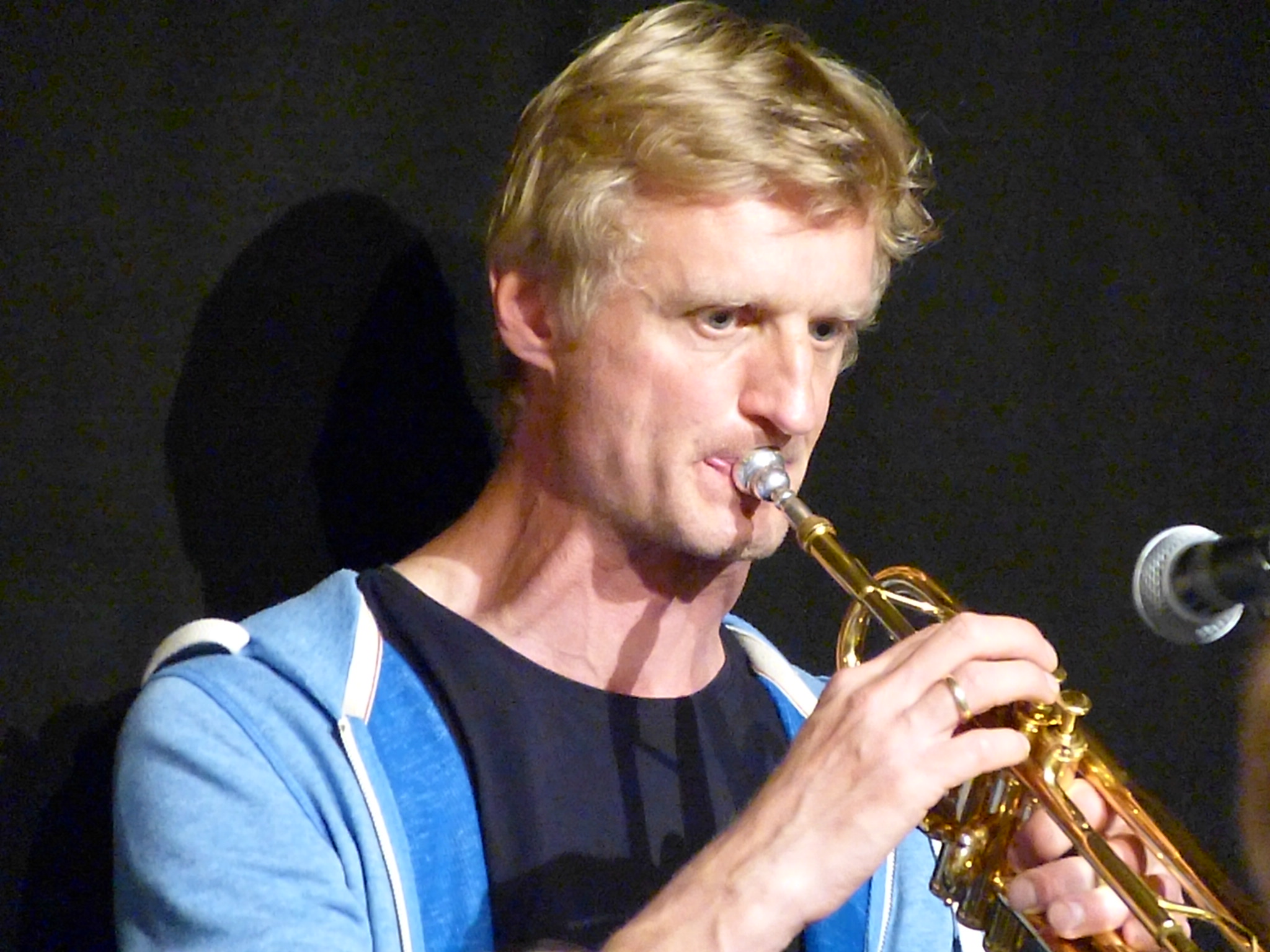 Matthias Knoop in public rehearsal of "CCJO meets John Hollenbeck" as part of Cologne Contemporary Jazz Orchestra (CCJO) at Stadtgarten Cologne, Germany, May 11th, 2019